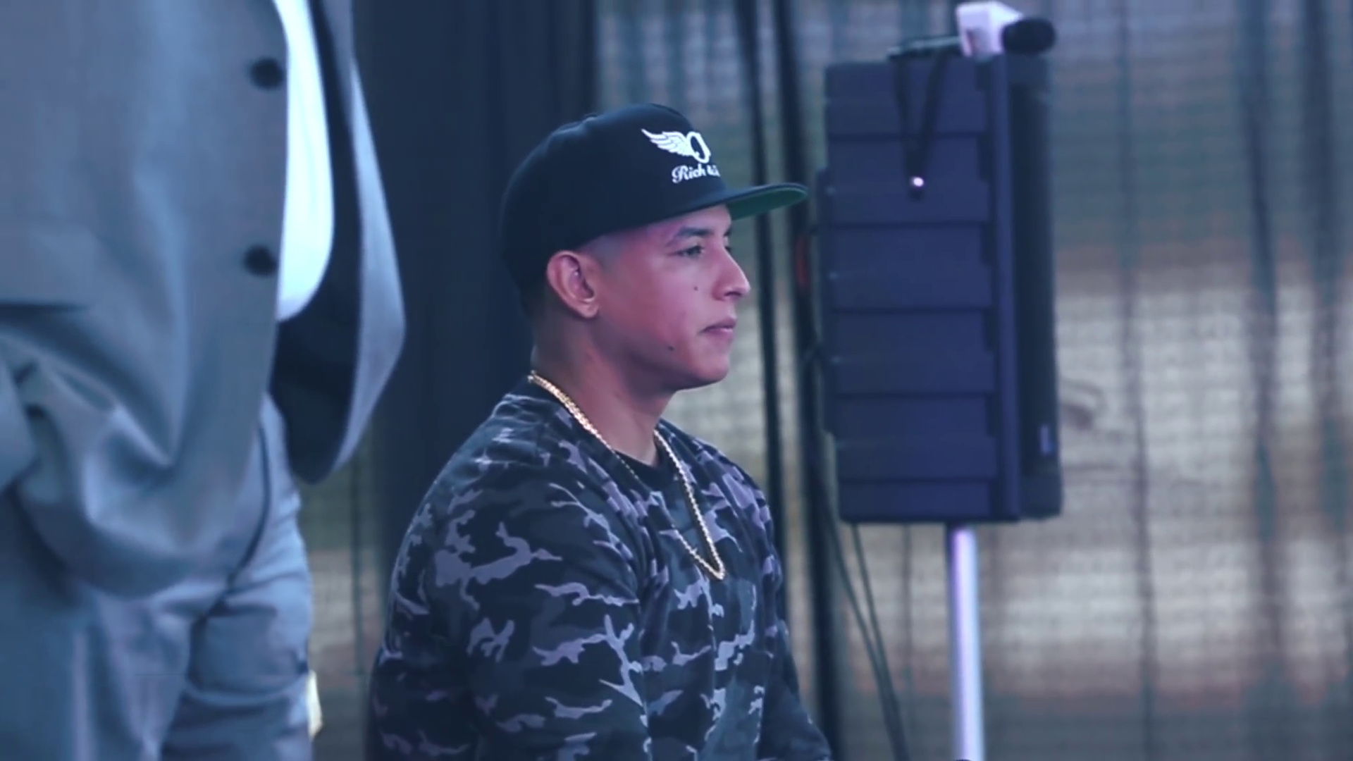 Daddy Yankee vs Don - The Kingdom (Official Q & A) | Screenshoot starting at 0:40 sec.